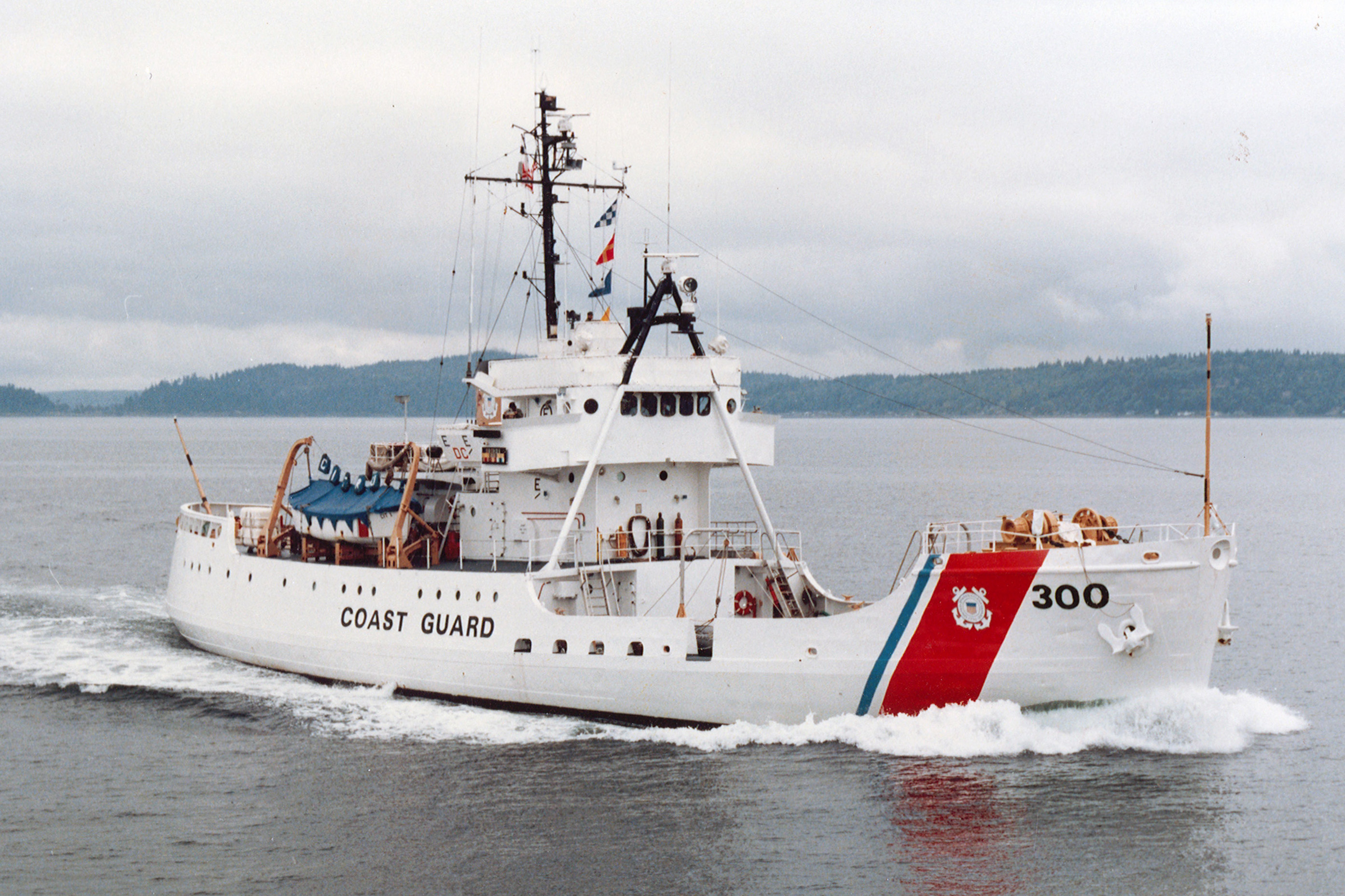 USCG Citrus-1984 PD-USGov-DHS-CG